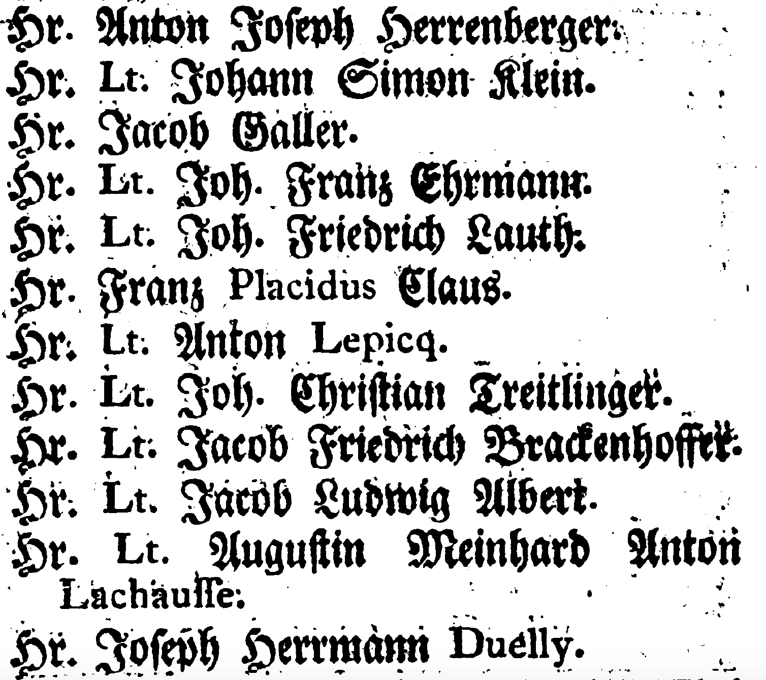 An example of mixed use of Fraktur and Antiqua. Names considered German are set in Fraktur, while those considered Romance (French, Latin) are set in Antiqua.